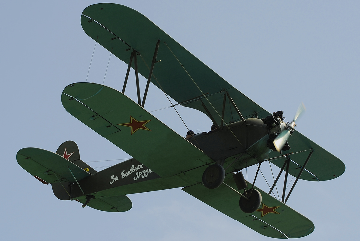 Flight Po-2 RA-1945g